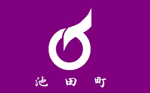 Flag of Ikeda Fukui chapter